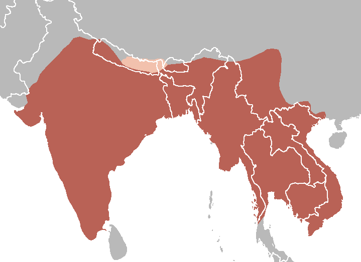 Chestnut-tailed Starling (Sturnus malabaricus) distribution map